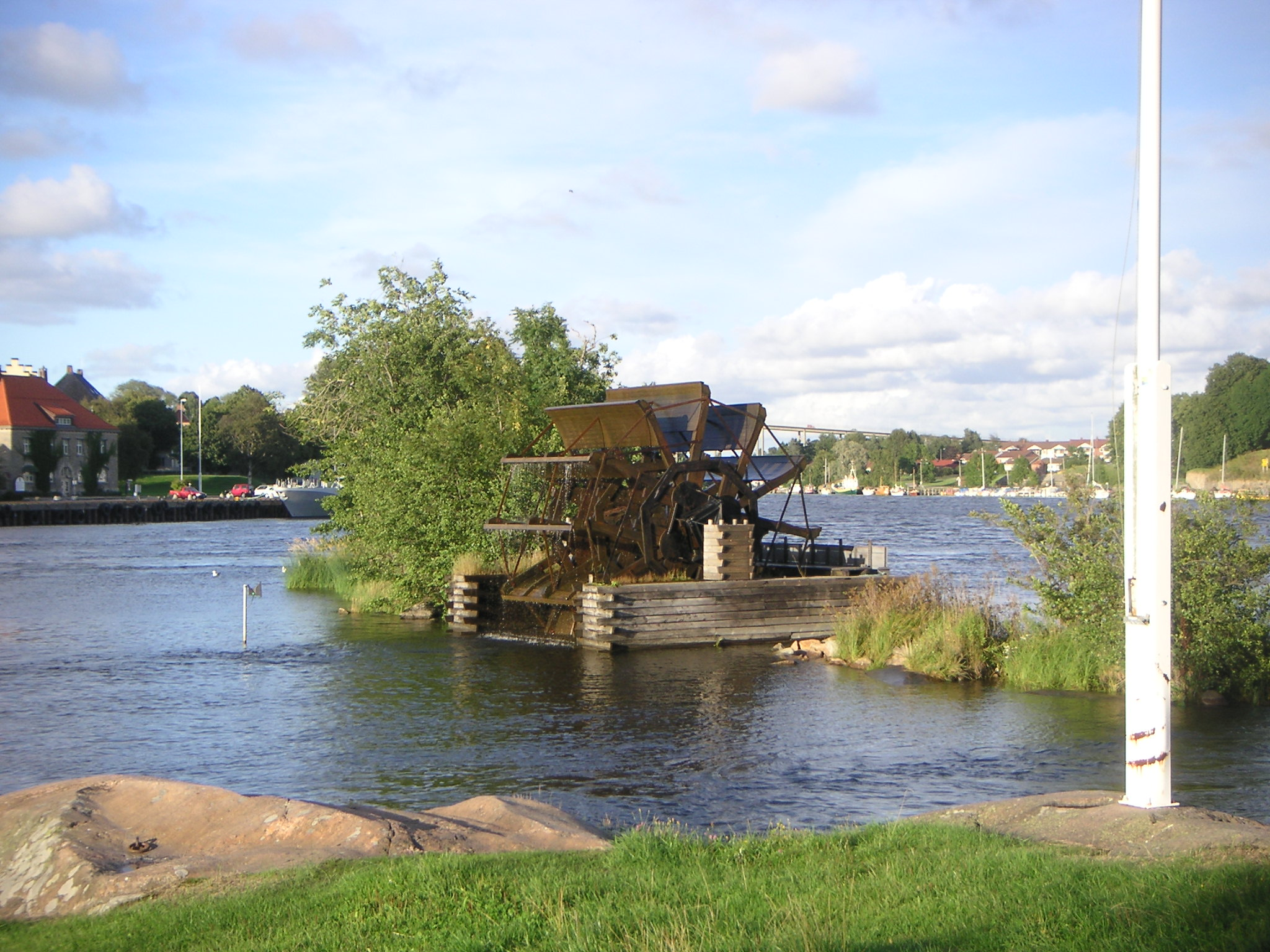 Water wheel from 1600 a.d